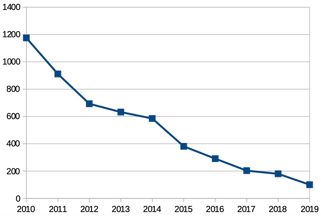 Lithium battery cost in $ per kWh for Electric Vehicules 2010-2019